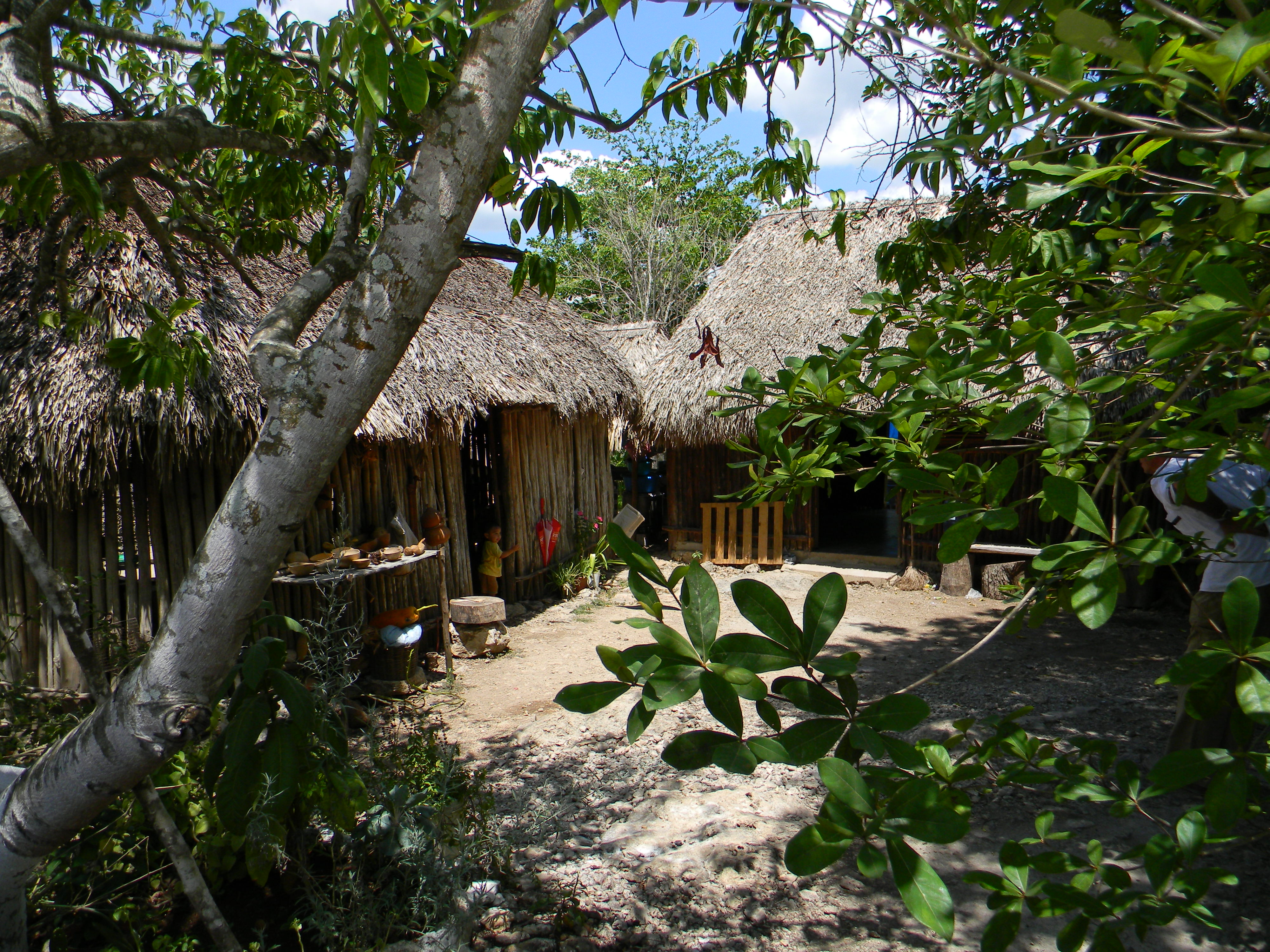 Traditional house in today's Mayan's village Pacchen